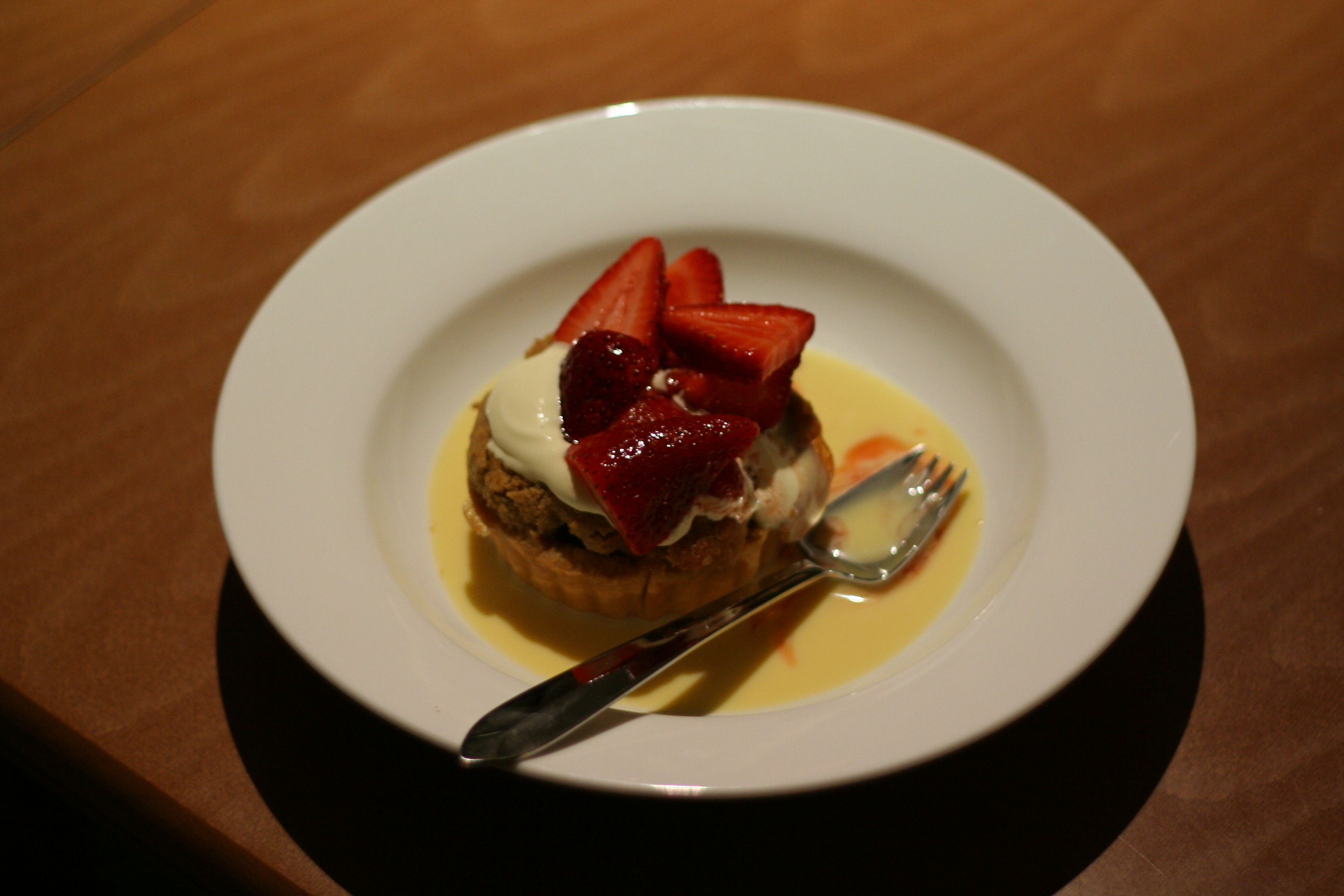 A Splayd (plural 'Splayds') is a brand of single eating utensil combining the functions of spoon, fork, and knife, generically called a sporf. It was invented by William McArthur in the 1940s in Sydney, Australia.